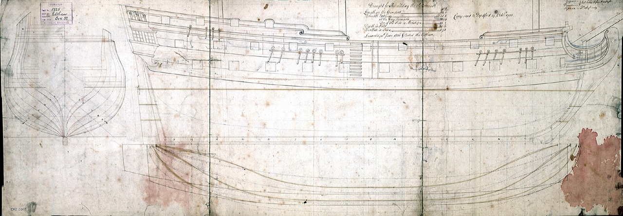 Eltham (1736); Gosport (1741); Faversham (1741); Saphire (1741) [also spelt: Saphire] Scale: 1:48. Plan showing the body plan, sheer lines, and longitudinal half-breadth for Eltham (1736), a 1733 Establishment 44-gun Fifth Rate, two-decker. The plan includes alterations to the fore and aft for Gosport (1741) and Faversham (1741), and alterations to the aft for Saphire (1741). Ship plan Eltham 1736